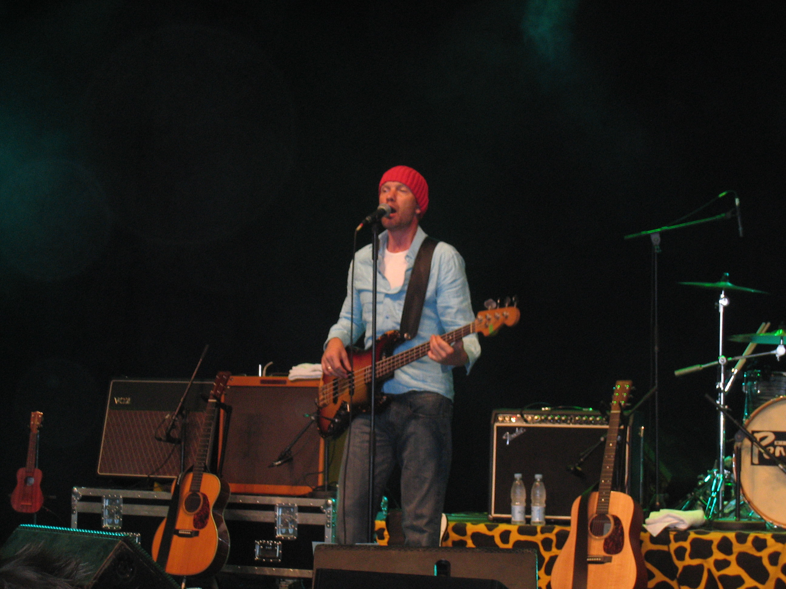 Nice Little Penguins singer/bass player at Langelandsfestivalen 2006. Picture taken by User:Lhademmor